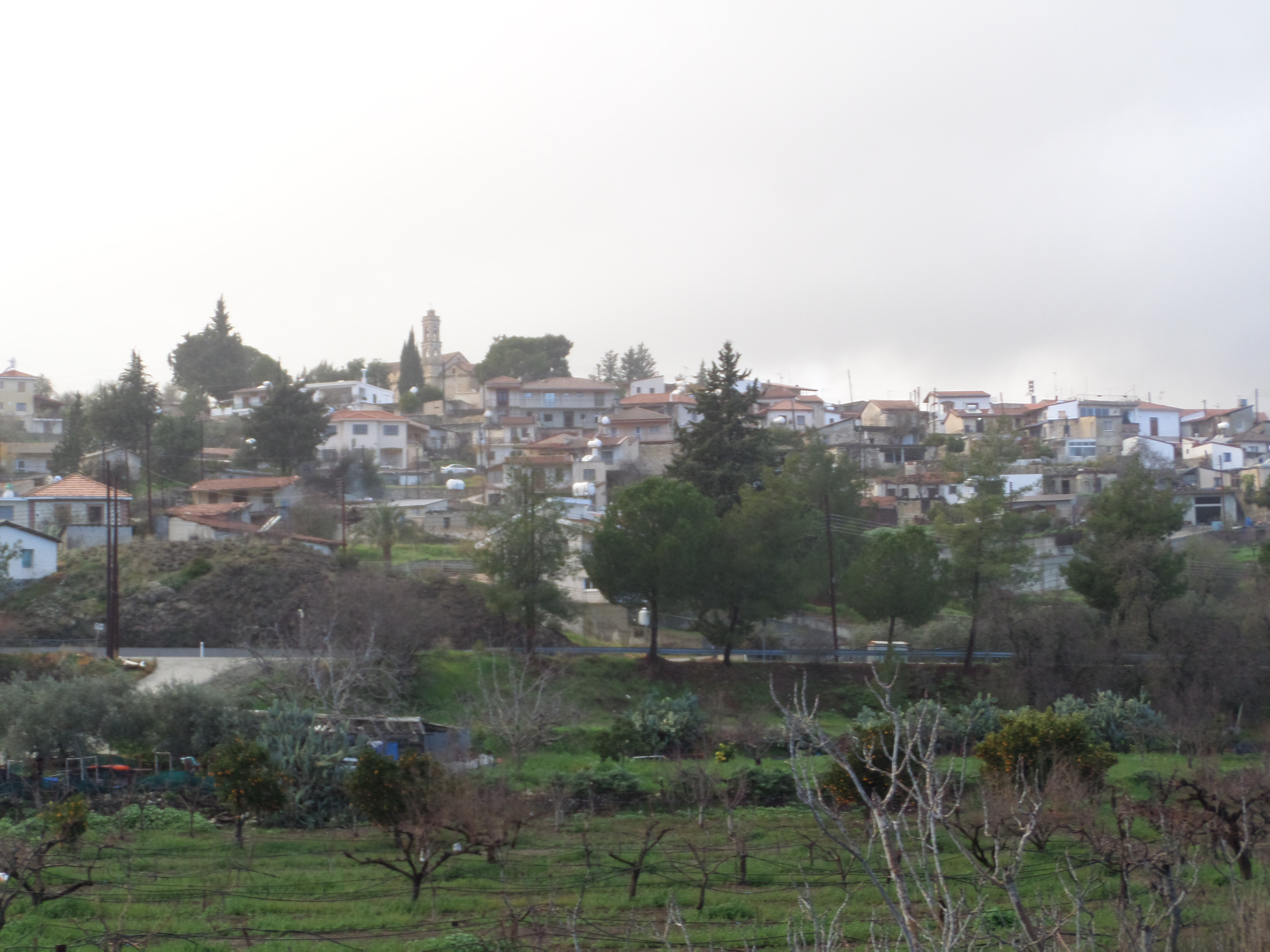 View of Agios Mamas, Limassol.